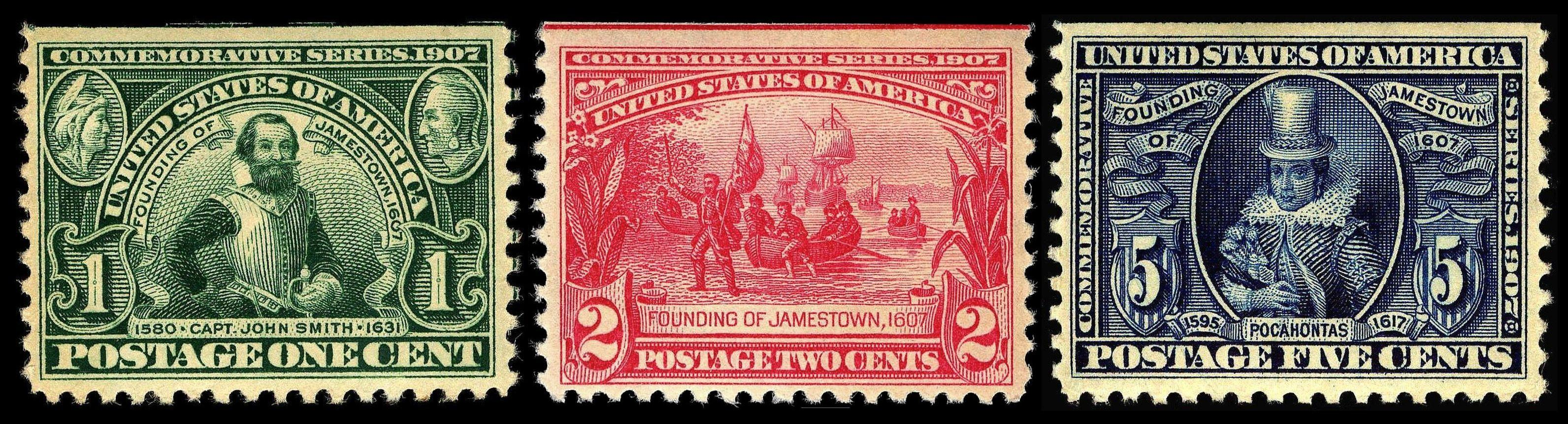 Composite image of Founding of Jamestown stamps, set of 3;Issued in conjunction with the opening of the Jamestown Exposition of 1907